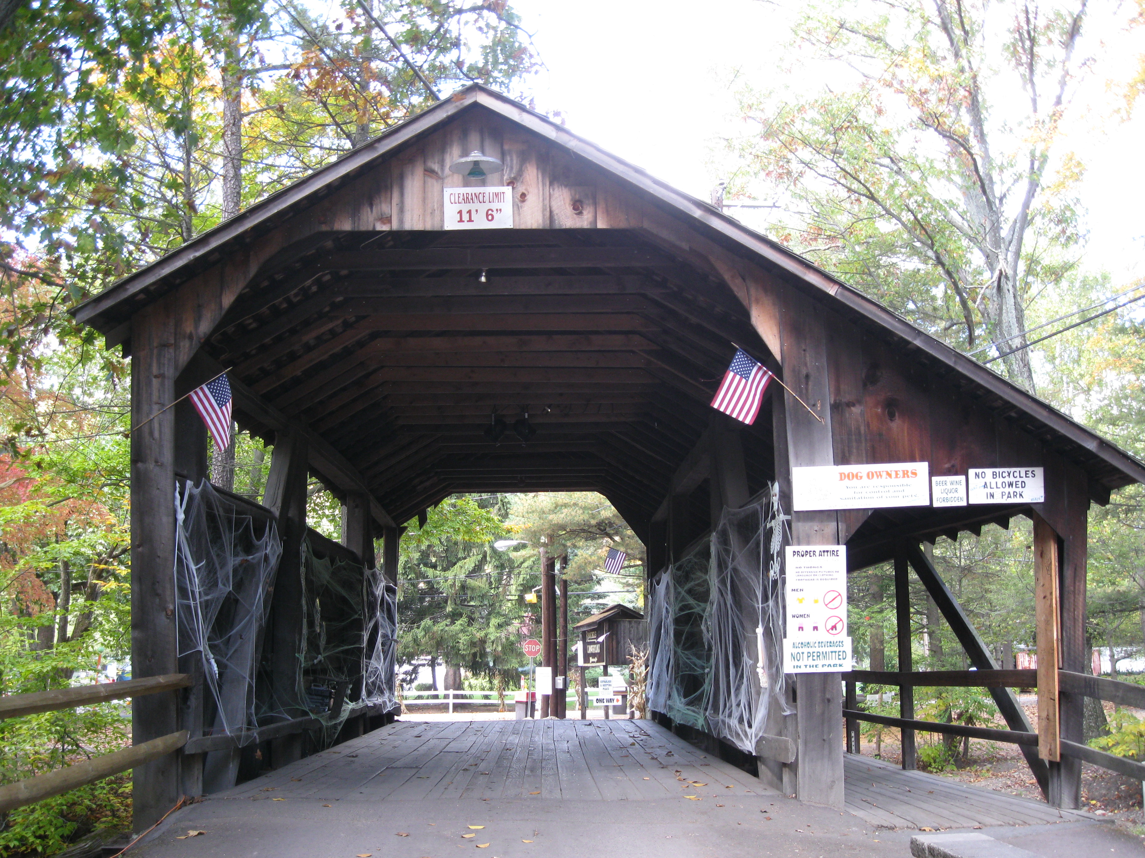 Lawrence L. Knoebel Covered Bridge, originally built near Benton, Pennsylvania over West Creek in 1875. In 1936-1937 it was moved to cross the South Branch of Roaring Creek between Cleveland Township in Columbia County, Pennsylvania and Ralpho Township in Northumberland County, Pennsylvania, in the United States. It is one of the entrances to the camping area for Knoebels Amusement Resort and is decorated for Halloween in this picture.